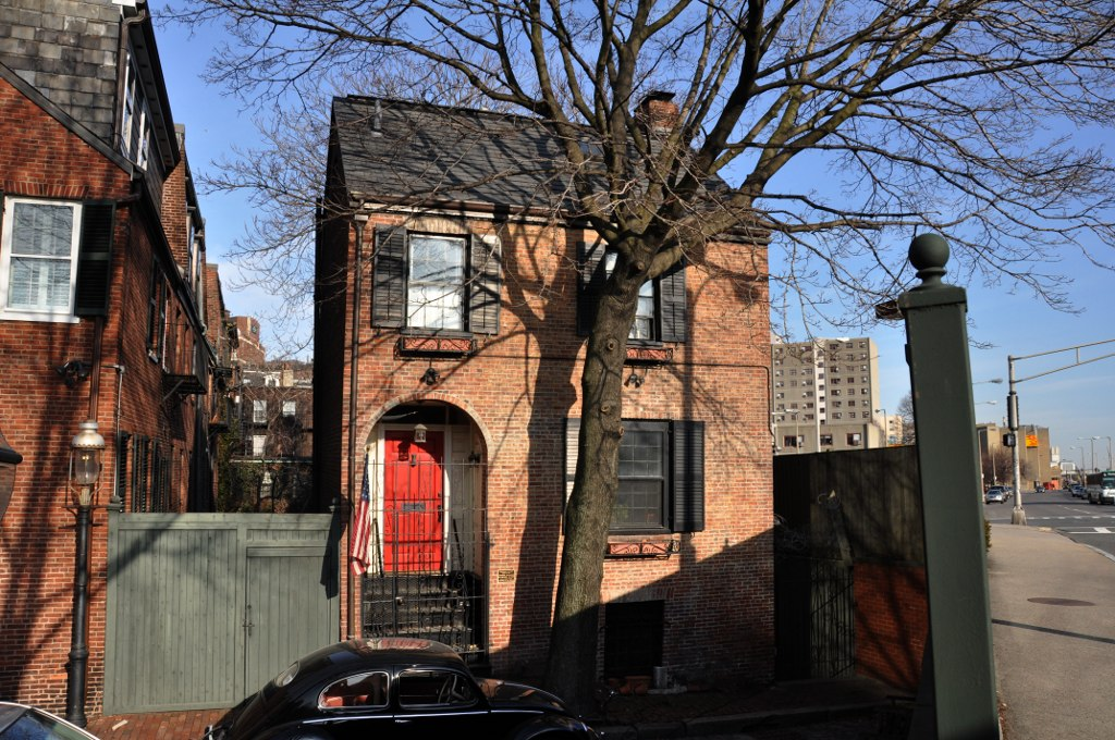 The House at 1 Bay Street in the Bay Village part of Boston, Massachusetts.